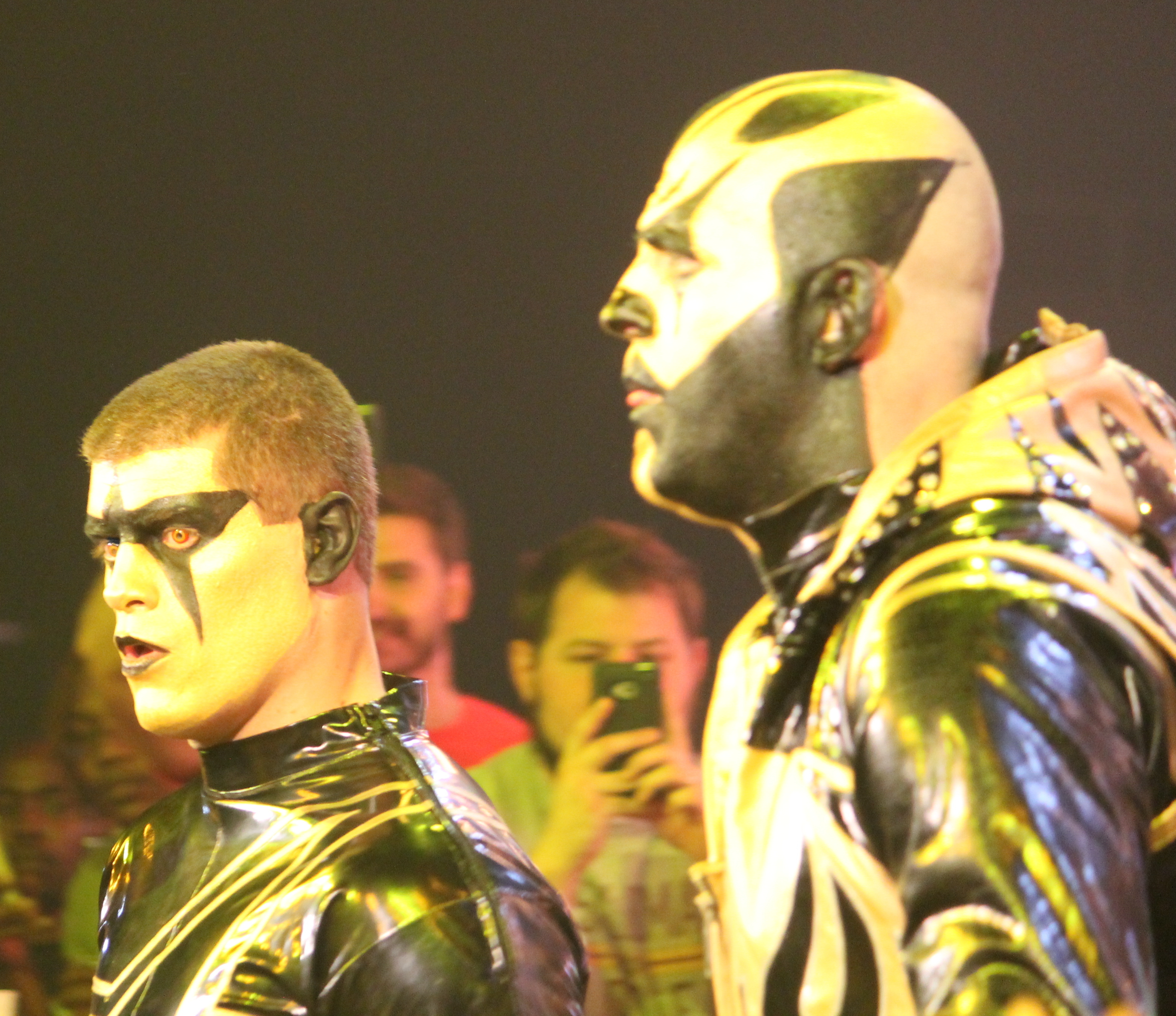 Stardust and Goldust in September 2014 at a SmackDown / Main Event television taping in Biloxi, MS. Cropped from original.